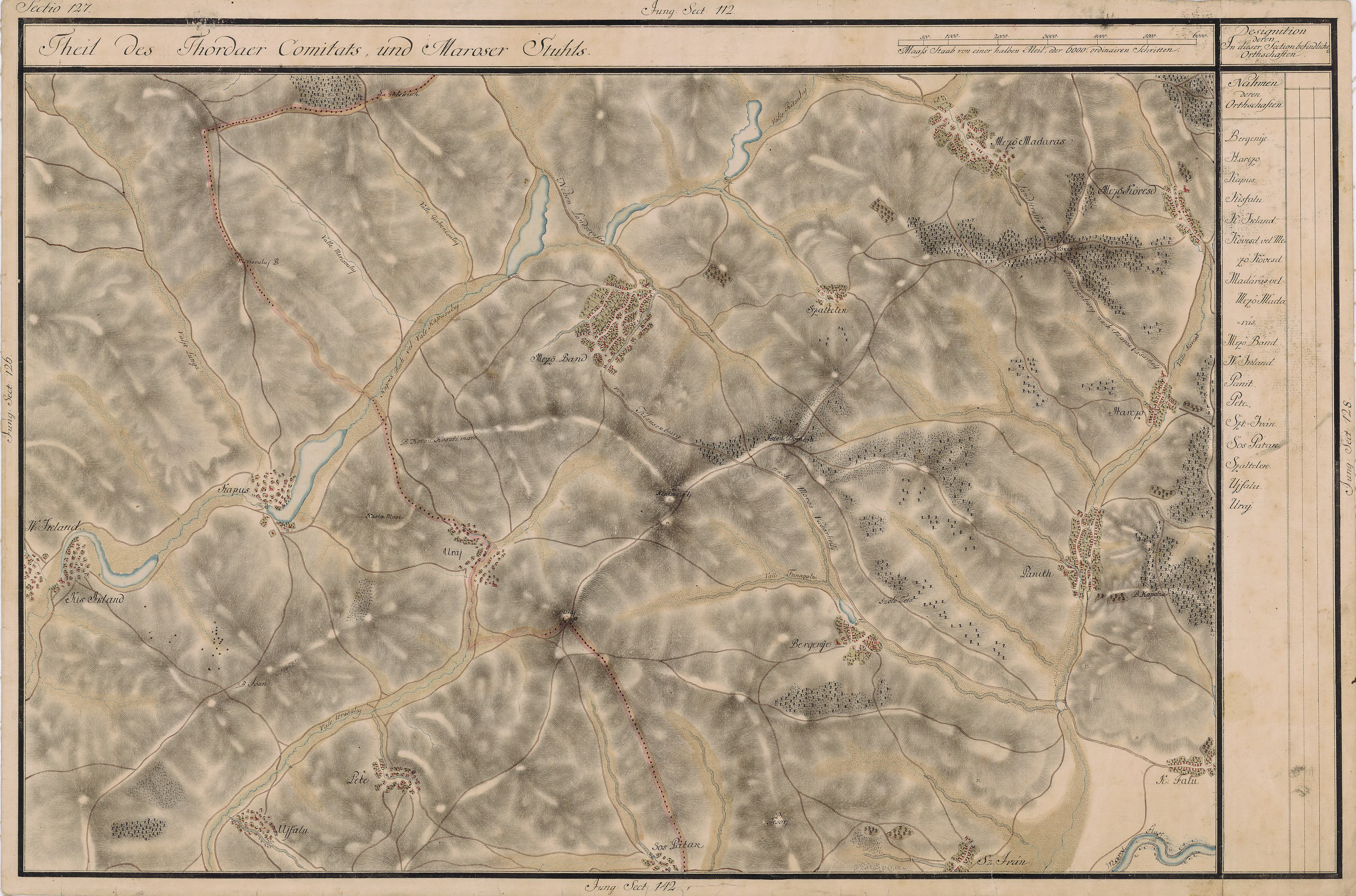 Grand Duchy of Transylvania, 1769-1773. Josephinische Landaufnahme pg.127